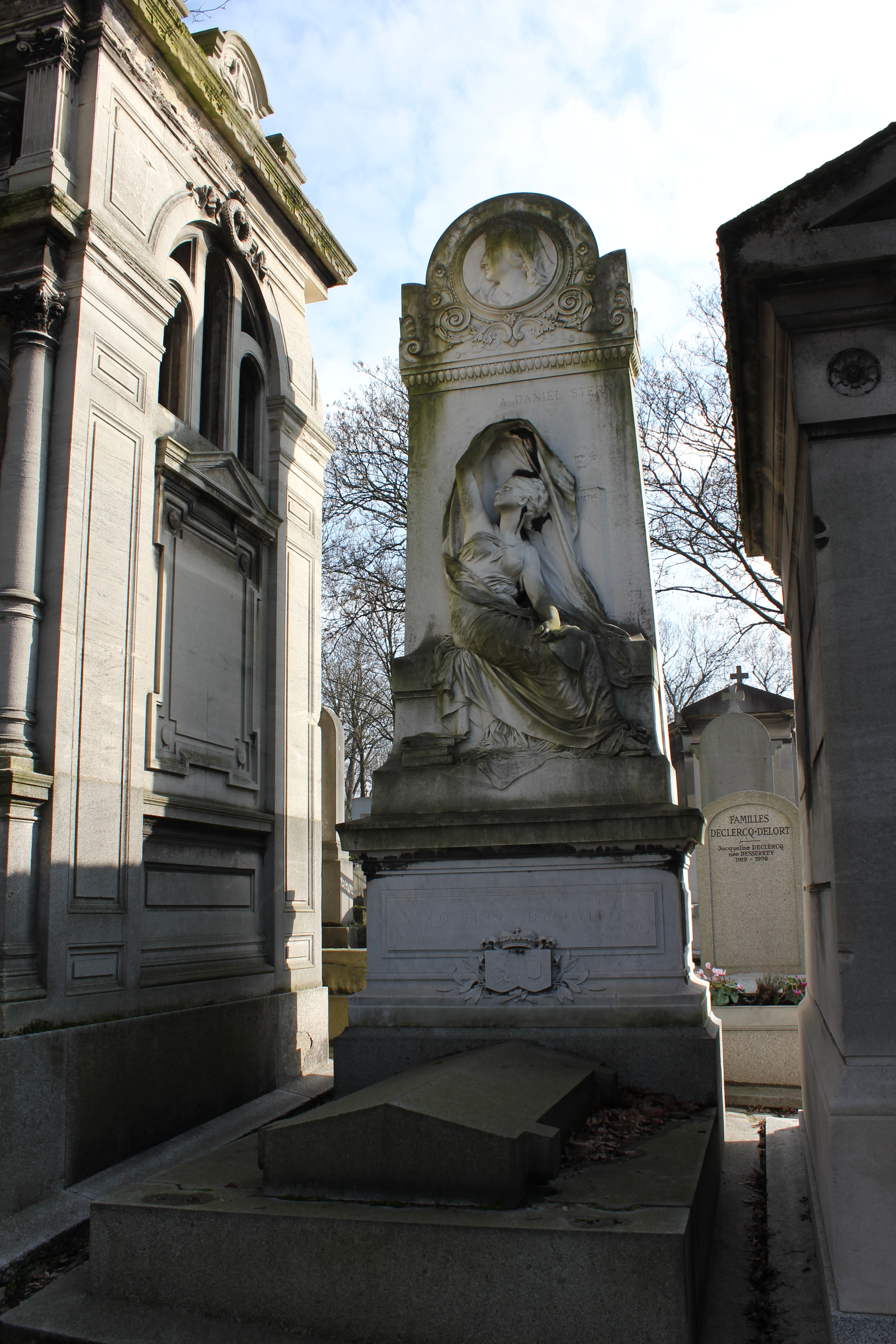 Marie d'Agoult's tombstone in Père Lachaise Cemetery, in Paris.